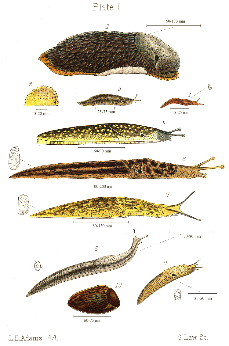 Plate with various land slugs